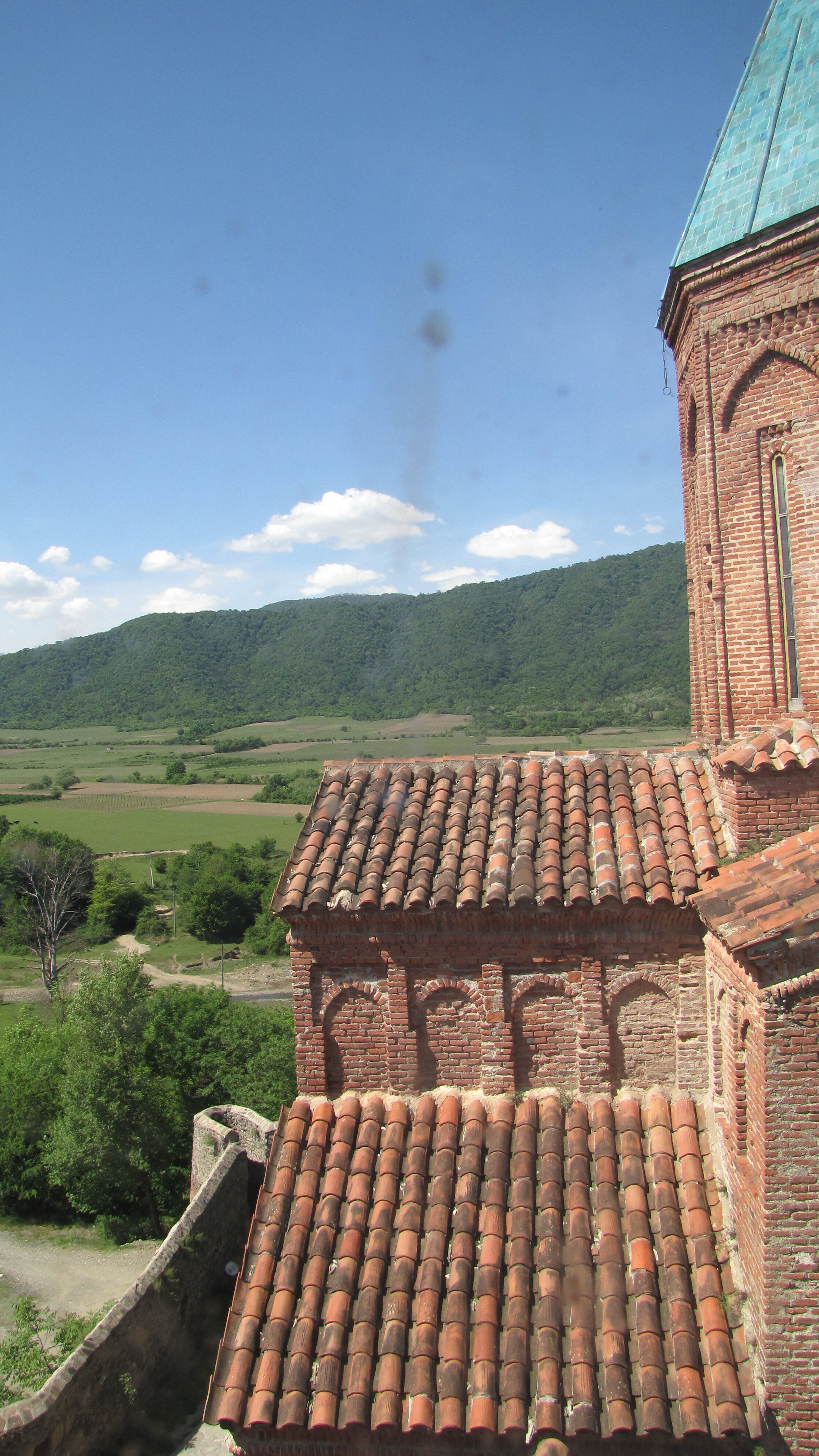 Church of the Archangels, Gremi